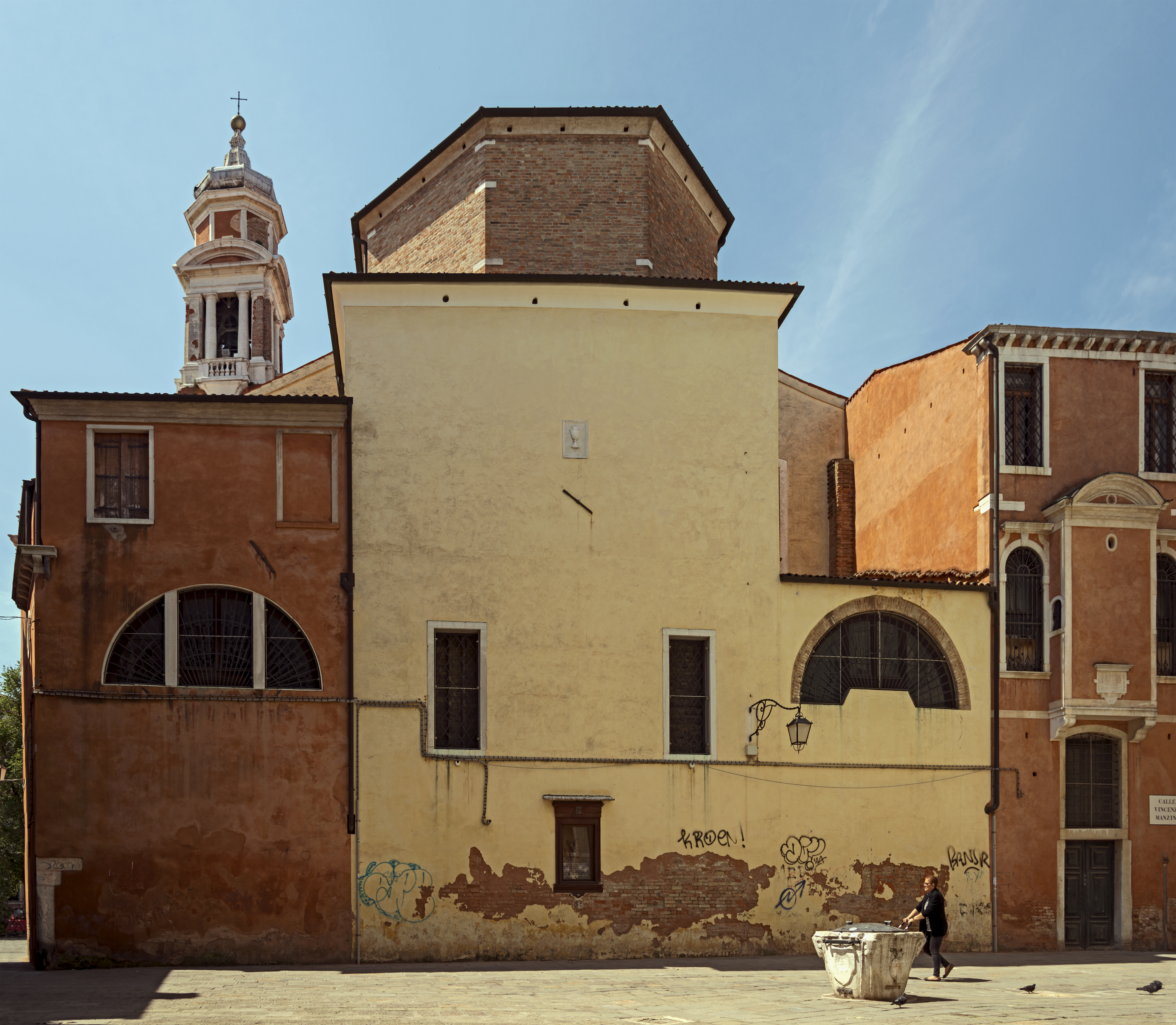 Church of Santi Apostoli in Venice - The apse, seen from Campo drio Chiesa